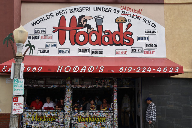 A photograph of the storefront for the San Diego restaurant, Hodad's.